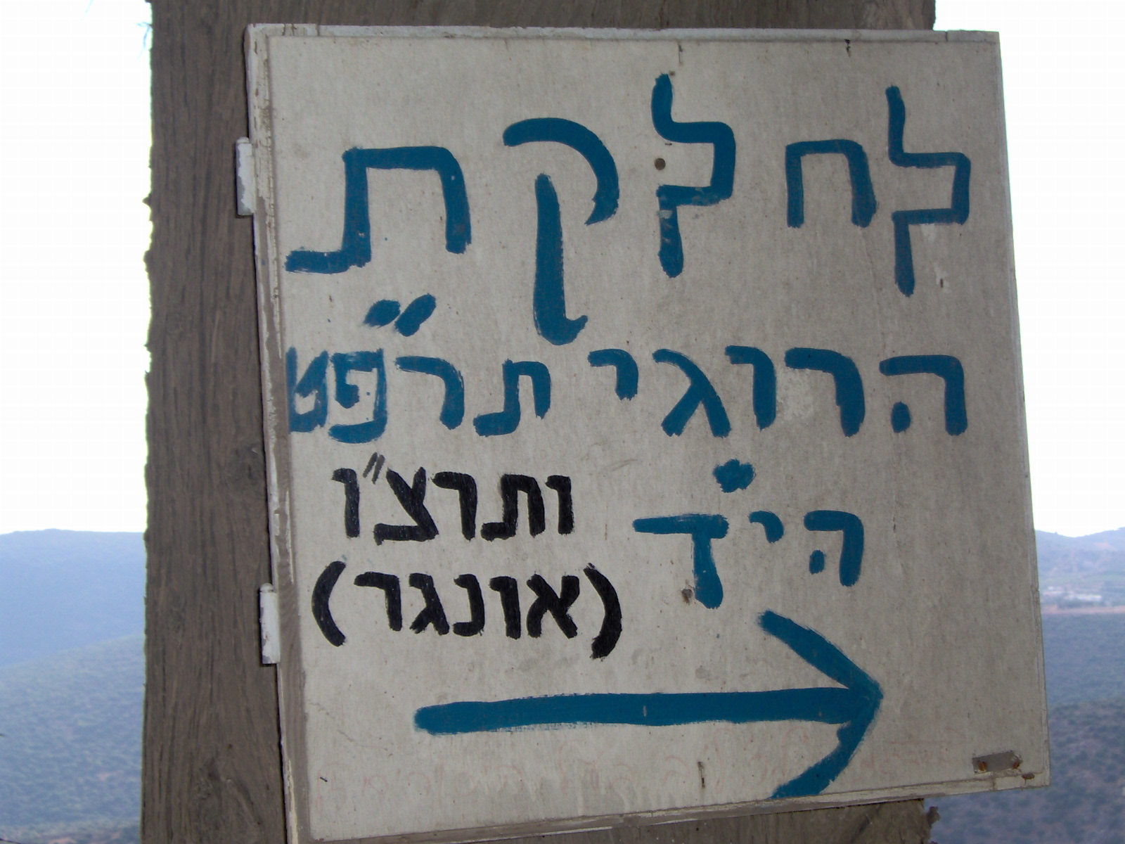 Sign directing to the section where Jews murdered in 1929 (תרפ״ט) by Arabs are buried in Safed. "HaShem Will Avenge Their Blood" (הי"ד : השם יקום דמם) said on behalf of martyred Jews.